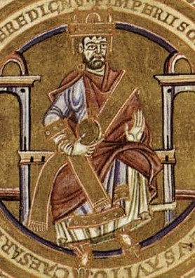 Henry II the Ottonian, duke of Bavaria, king of Germany and Italy.